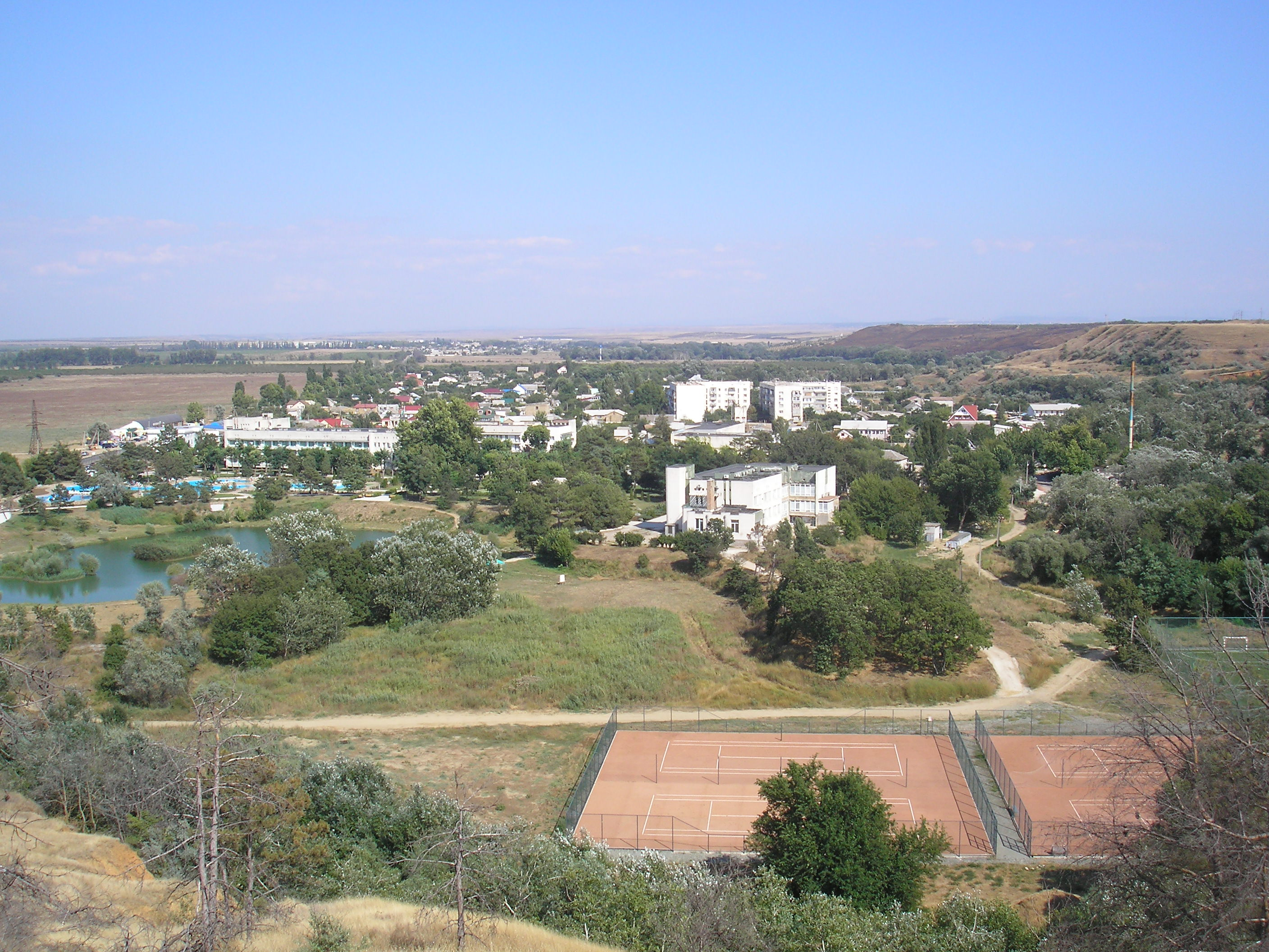 Village Peschanoe, Bakhchisaray district, Crimea